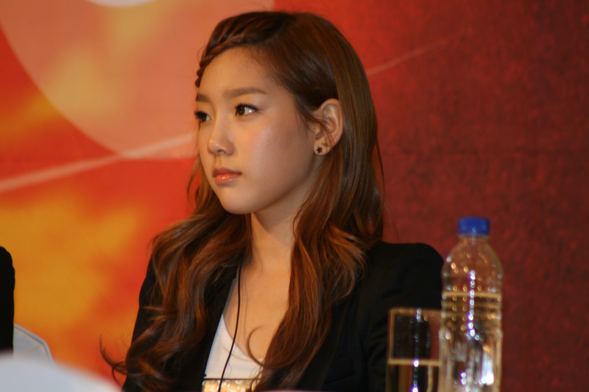 TaeYeon @Asia Song Festival [090918]